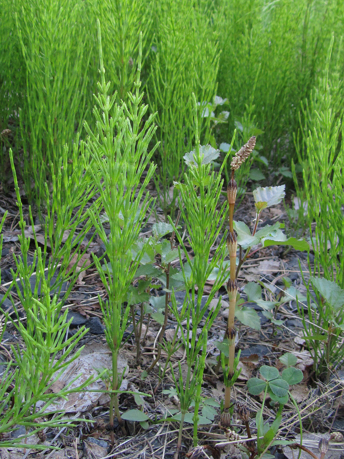 Equisetaceae, Equisetum arvense